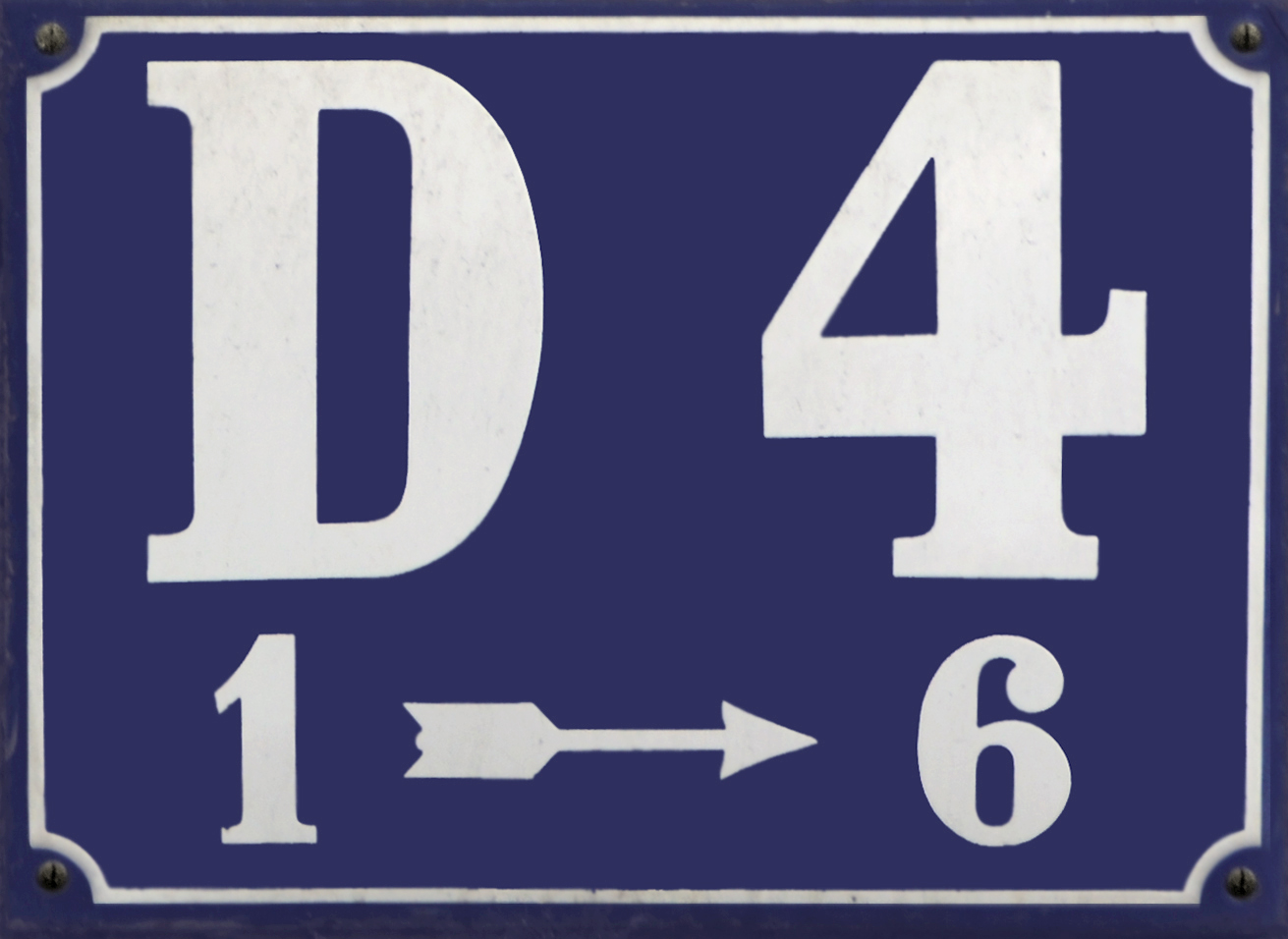 Street sign, Mannheim, Germany, square D4, numbers 1-6, picture slightly retouched